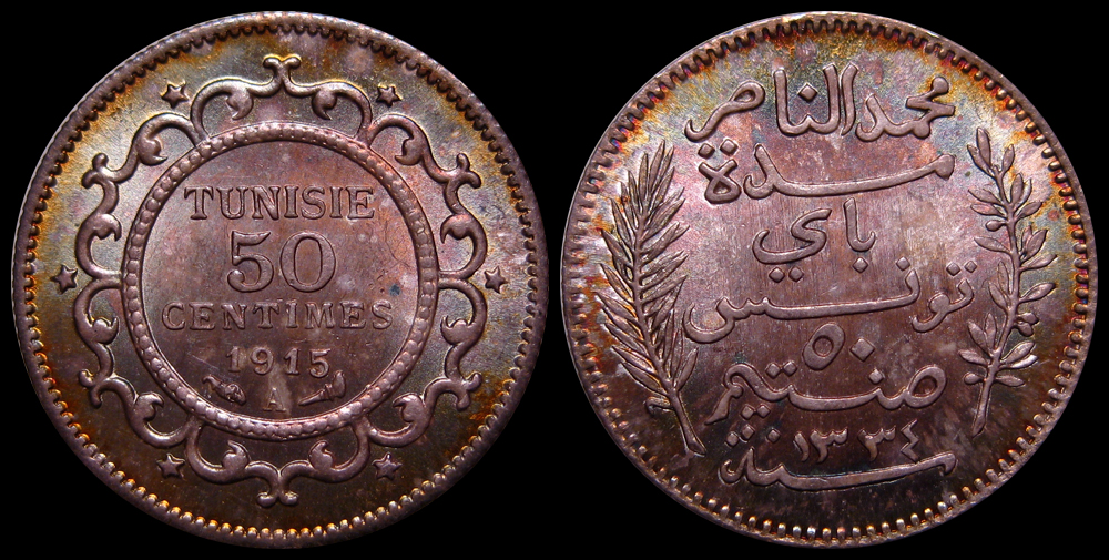 Tunisian coin - 50 cent - 1915